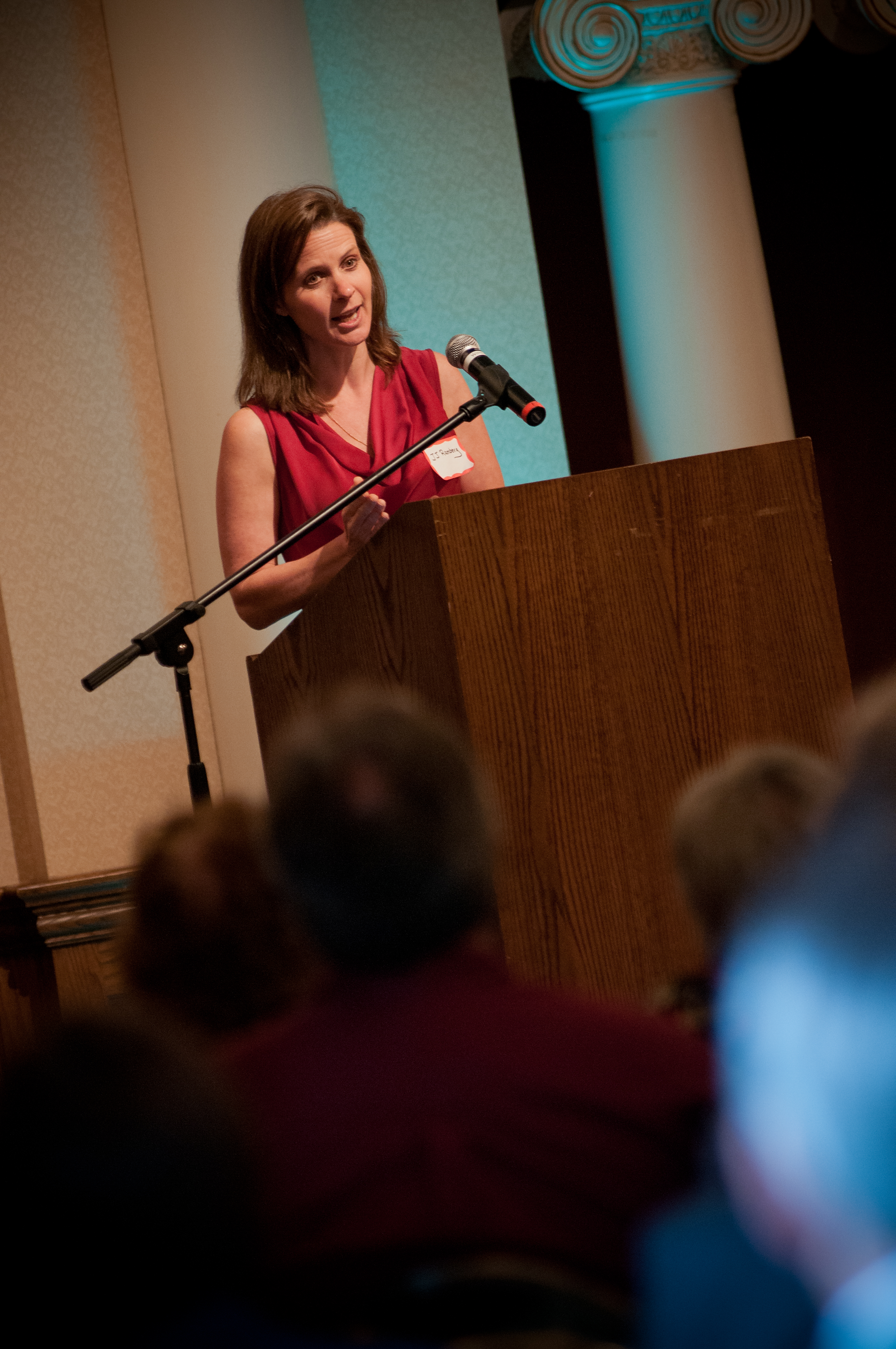 The Roanoke Regional Forum rounded out its third season with J.J. Ramberg, host of MSNBC’s "Your Business."